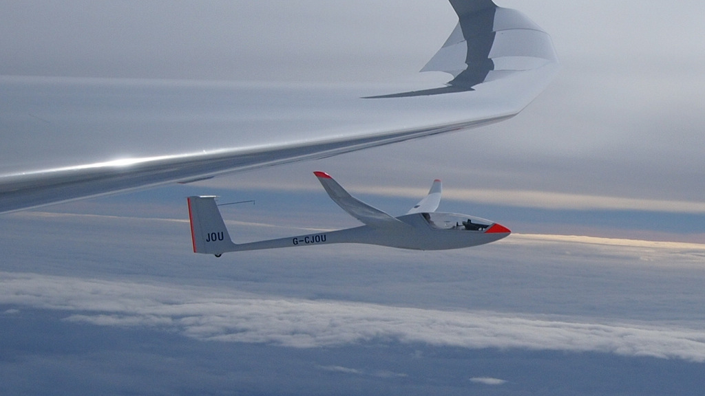 Glider Lak 17